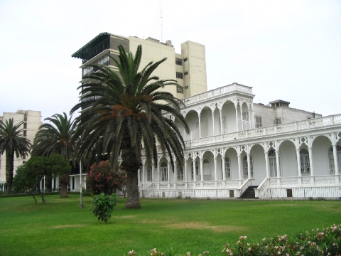 Taken by User:StarbucksFreak on March 25th, 2005